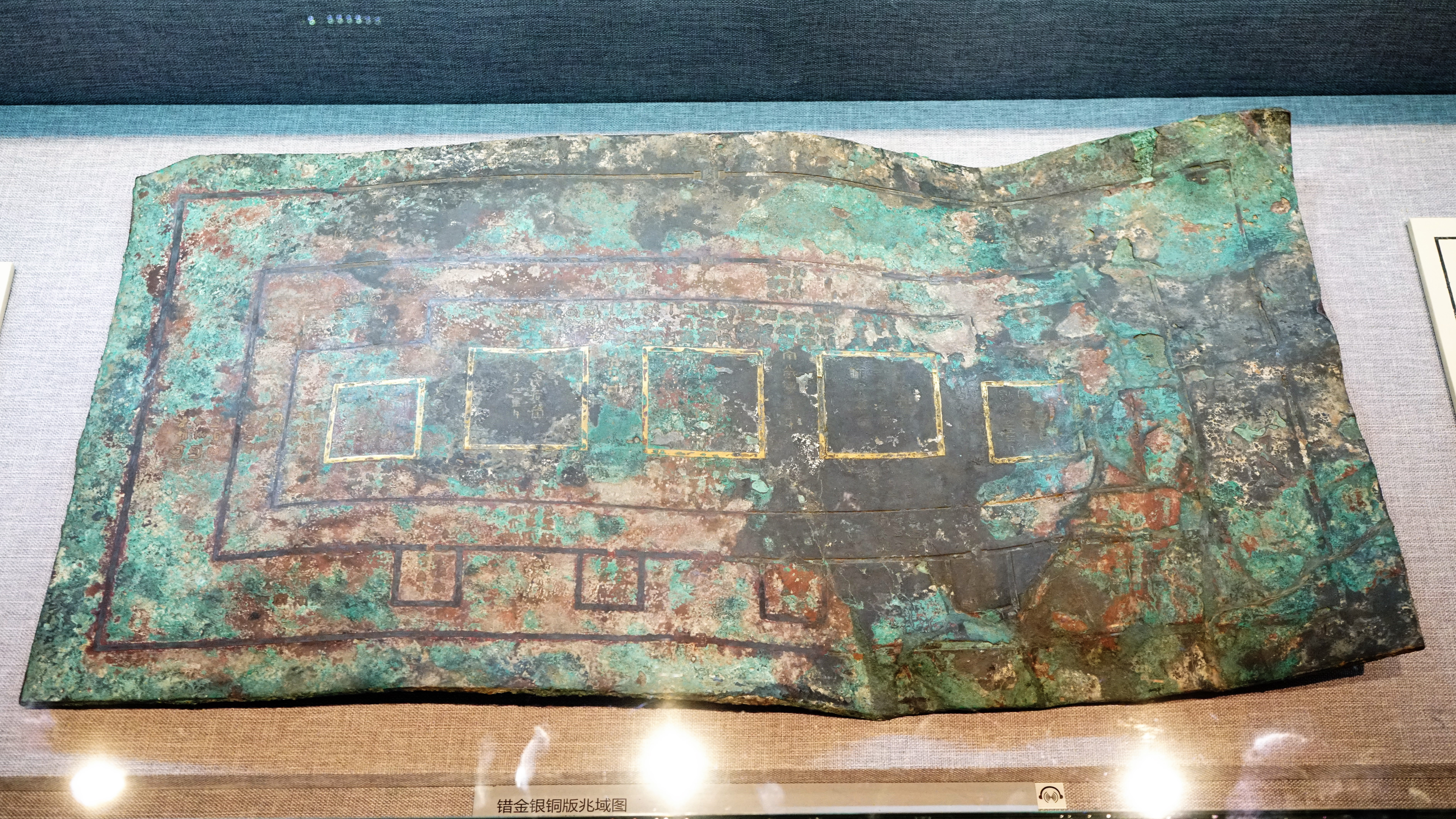 Architectural Plan of Mausoleum Layout on Bronze Plate with Details in Gold and Silver